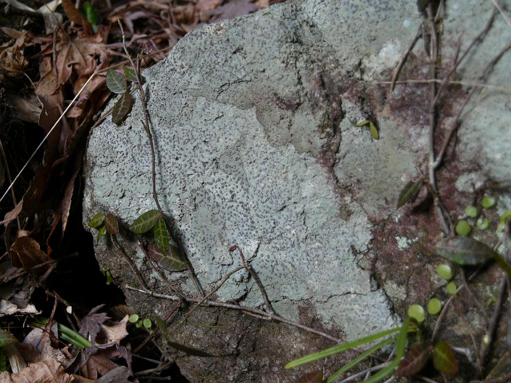 Porpidia albocaerulescens(Lecideaaceae)